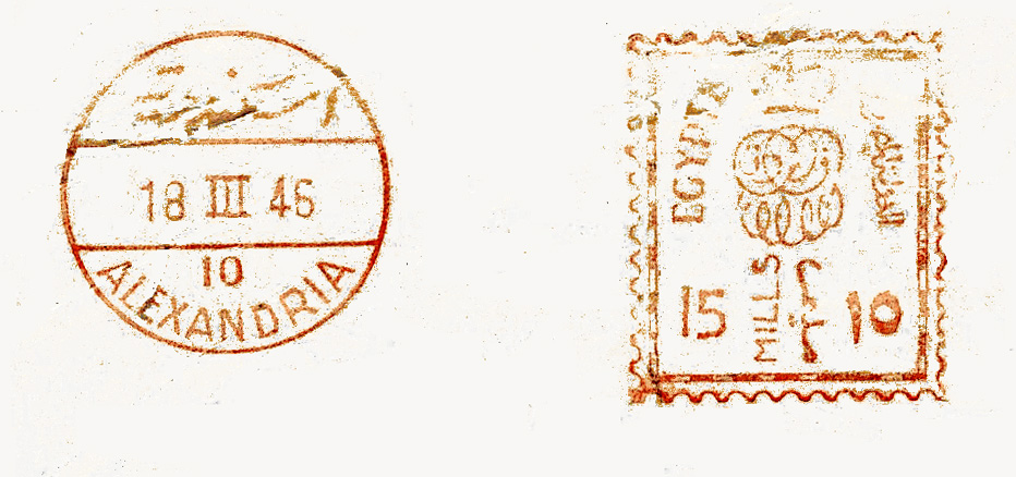 Meter stamp catalog image, Egypt Type A5